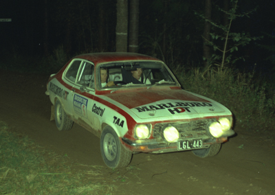 Colin Bond and George Shepheard, Australian Rally Champions 1974 in the Holden Dealer Team Torana GTR XU-1 at the Warana Rally